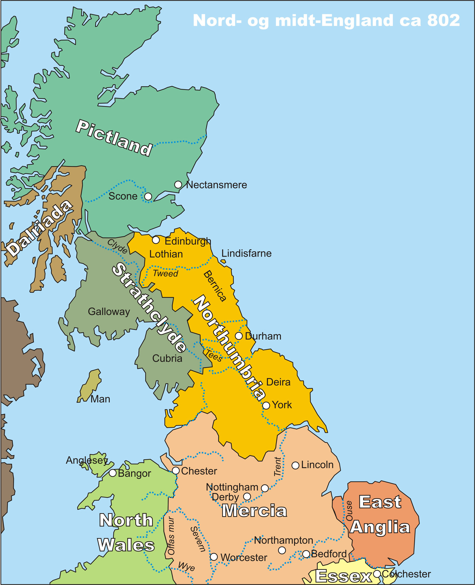 Map of middle and northern England, centred around Northumbria, circa 802